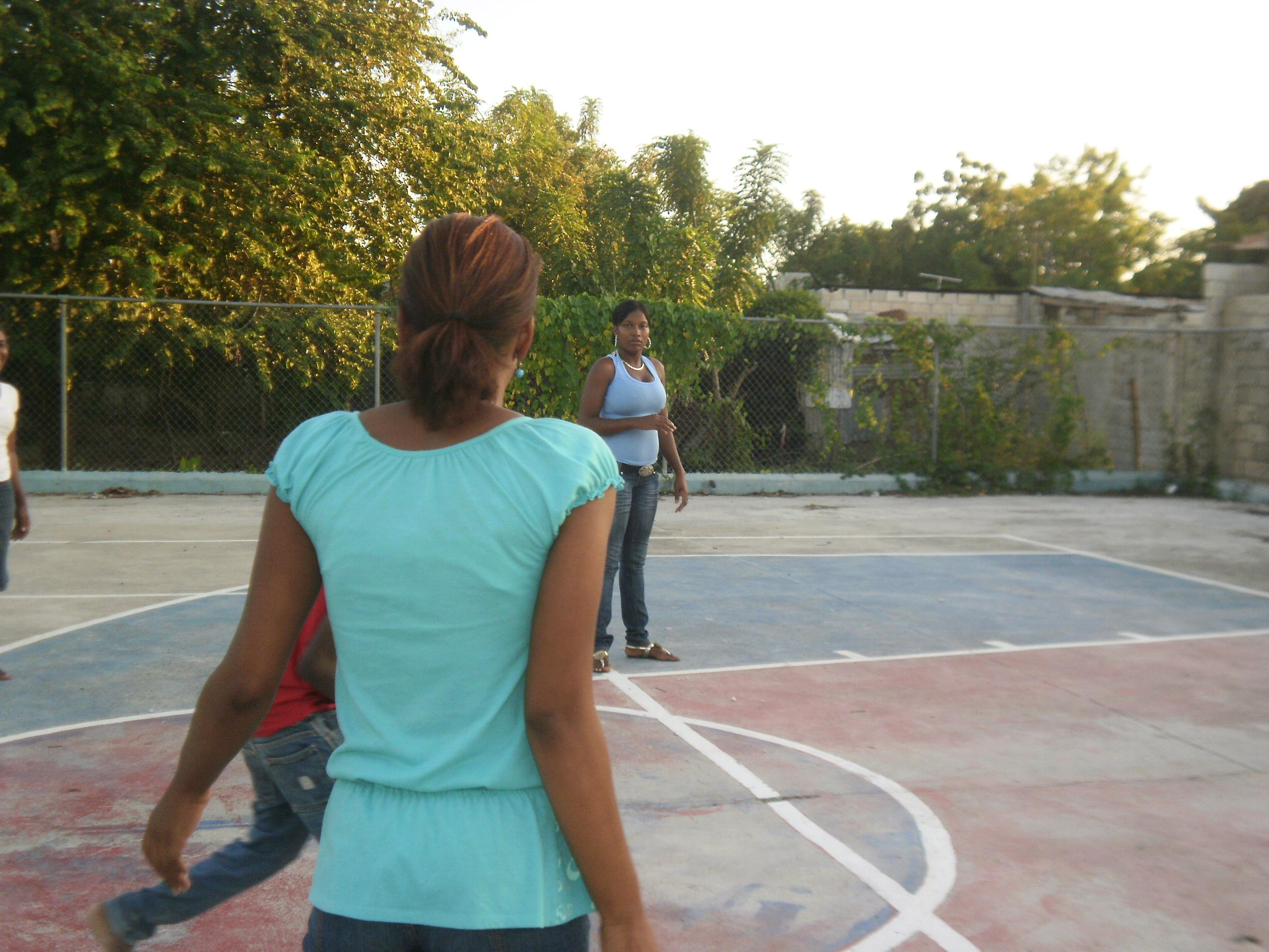 cancha